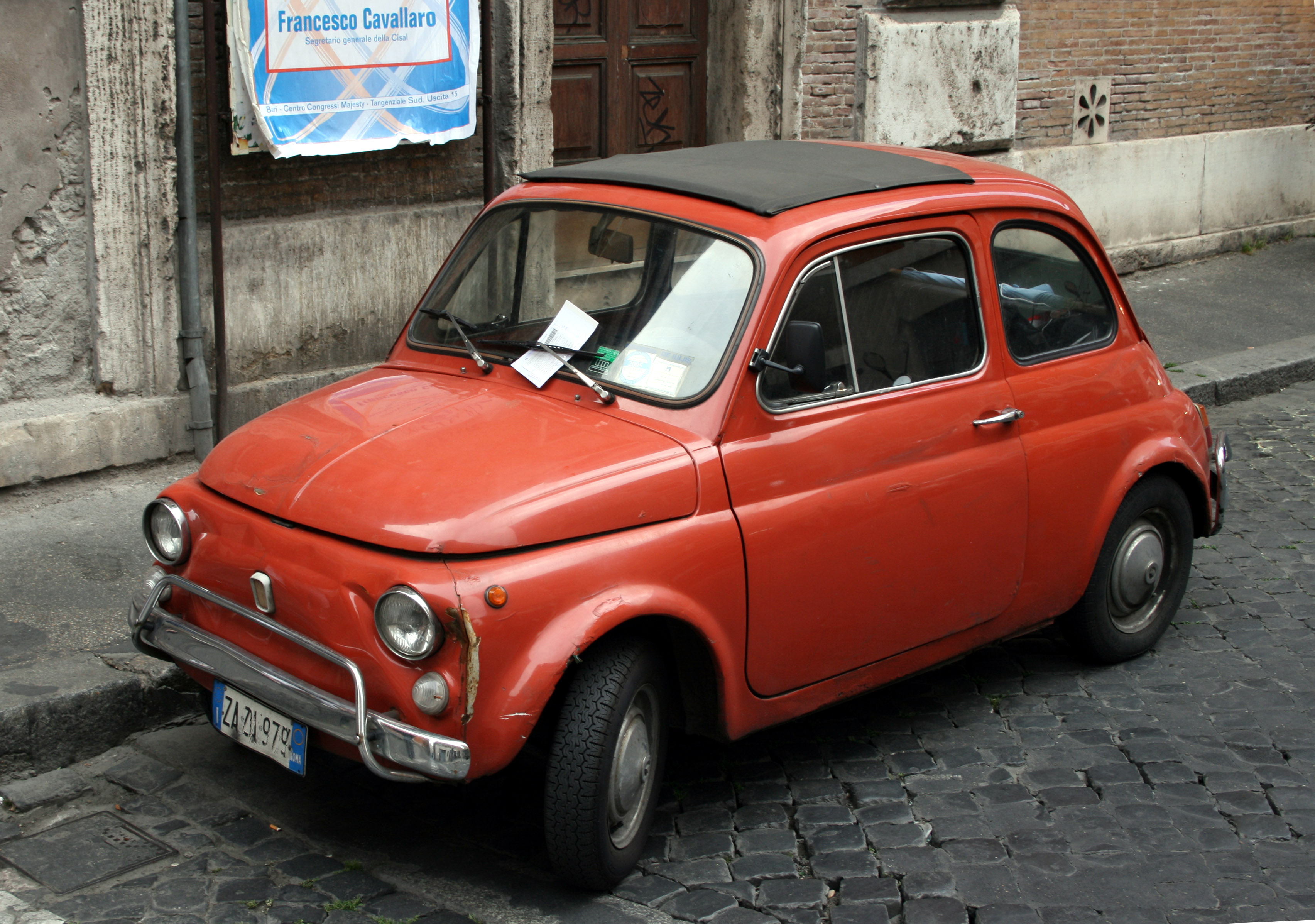 Fiat 500 rouge